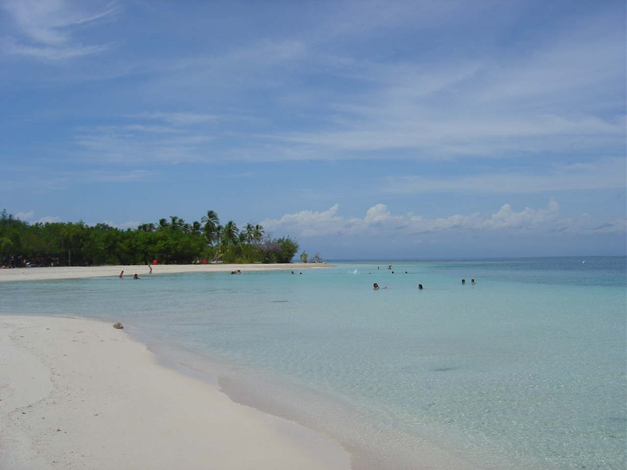 Beach in Morrocoy National Park, Venezuela.